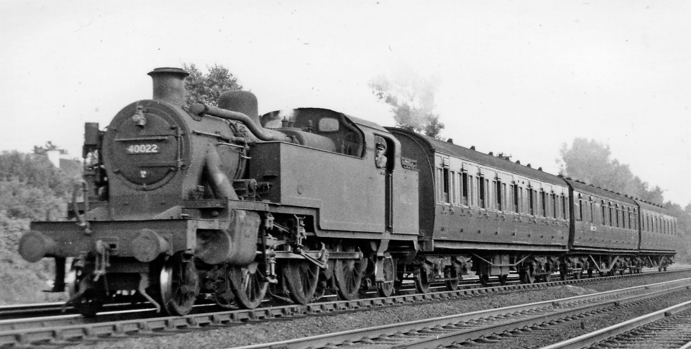 Down local north of Radlett. View SE, towards London: ex-Midland St Pancras - Leicester etc. main line. Running on the Down Slow line, the 17.20 St Pancras - St Albans is headed by LMS Fowler 3MT 2-6-2T No. 40022, built 1931 as No. 15522 and one of the first 40 built in 1930-1 fitted with condensing apparatus for working through the tunnels onto the Metropolitan Widened lines in London; it was withdrawn in 12/62 - the last of the Fowler 2-6-2Ts.